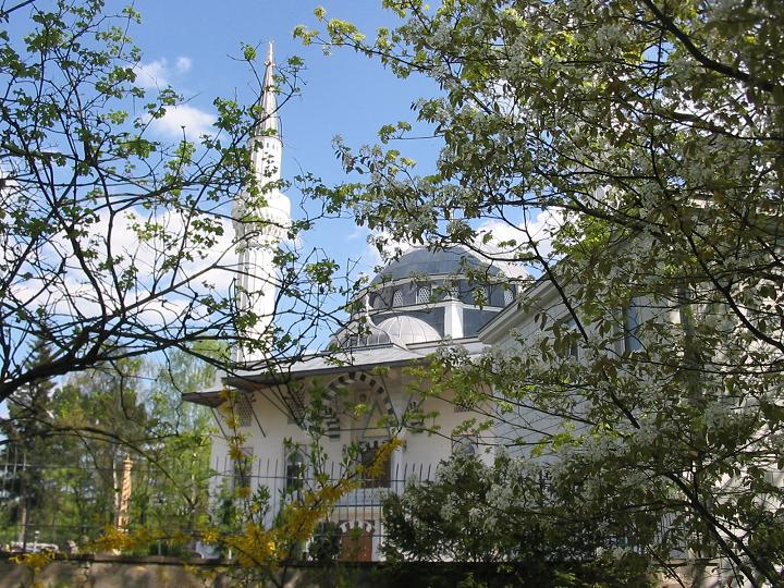 The Sehitlik-Moschee is a mosque on the Islamischen Friedhof (cemetery of islam) in Berlin-Neukölln. The laying of the foundation stone was in 1999.